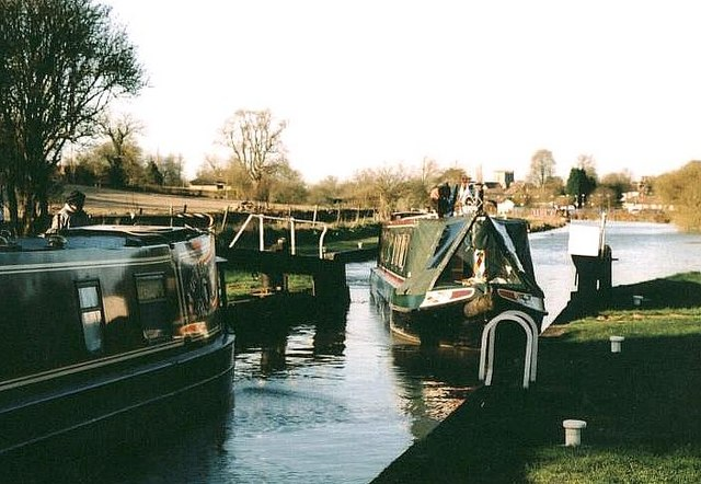 Burnt Mill Lock - No.65 - Great Bedwyn Burnt Mill Lock after restoration. Great Bedwyn church can be seen in the distance.